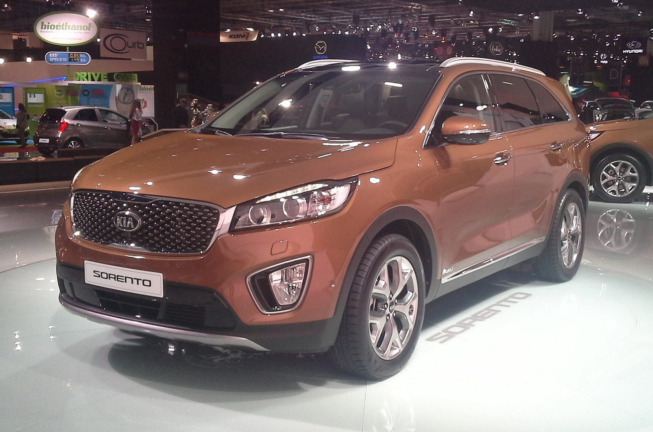 Kia Sorento UM photographed at the Mondial de l'Automobile de Paris 2014 in Paris, France.